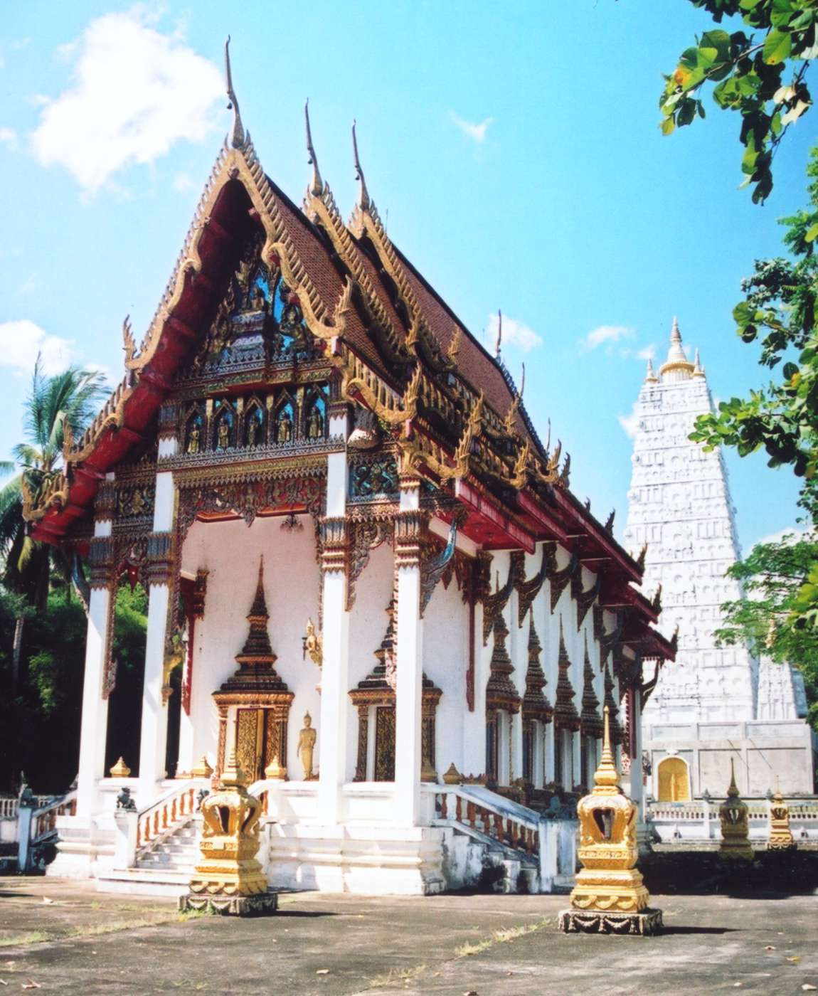 Wat Kanchanaram (วัดกาญจนาราม) in Kanchanadit, Surat Thani province, Thailand. Temple was built in 1967 (2510 B.E.). Photo taken by User:Ahoerstemeier on January 21 2005.